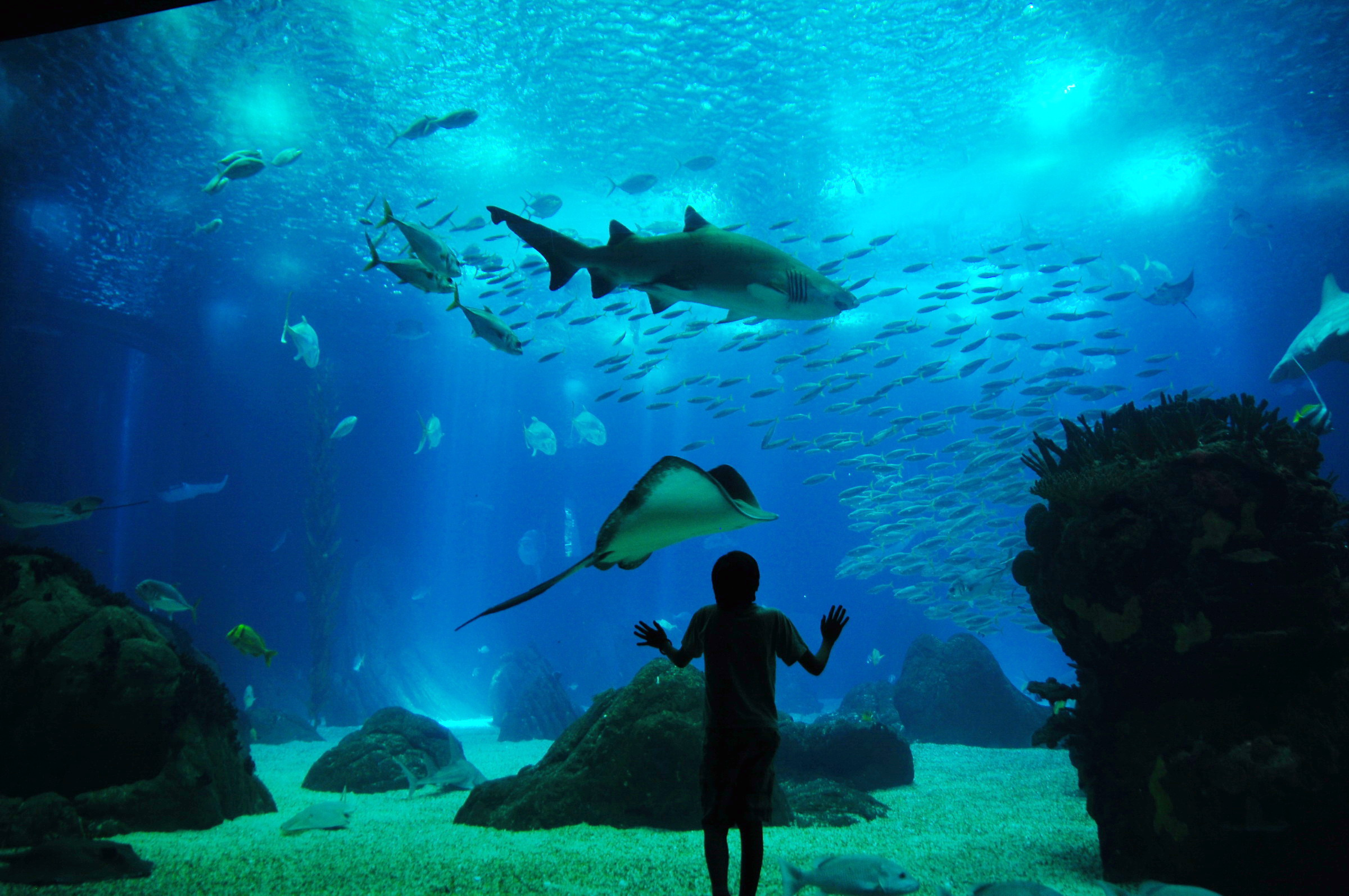 Oceanário de Lisboa